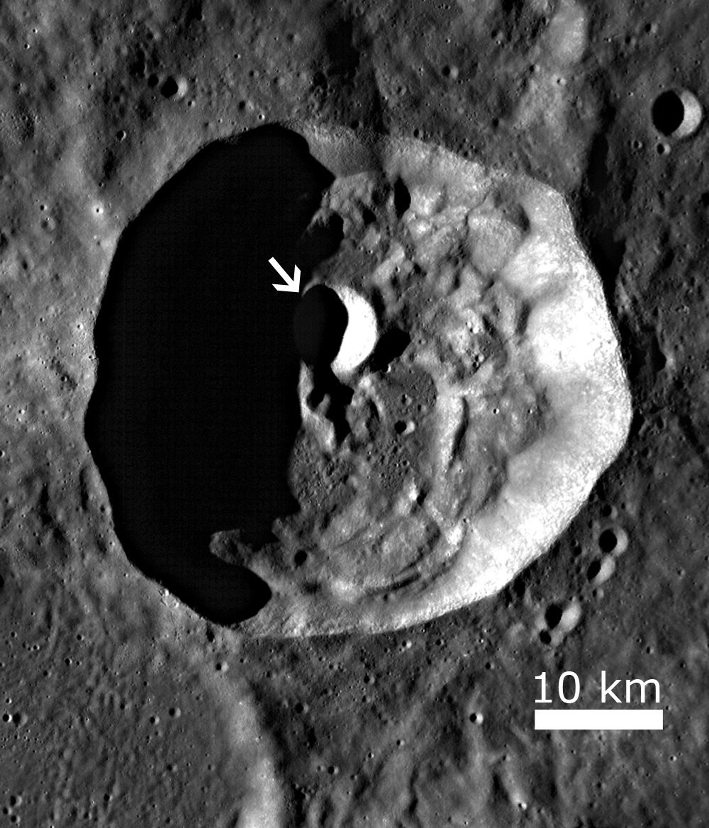 Henry Frères crater on the LROC WAC image (No. M117880746ME). Arrow points to the small crater within Henry Frères, which featured a boulder track in NAC M122597190L image.